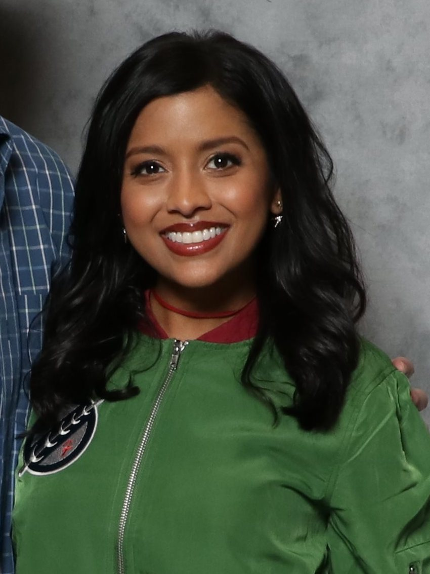 Sabine Wren in Star Wars Rebels